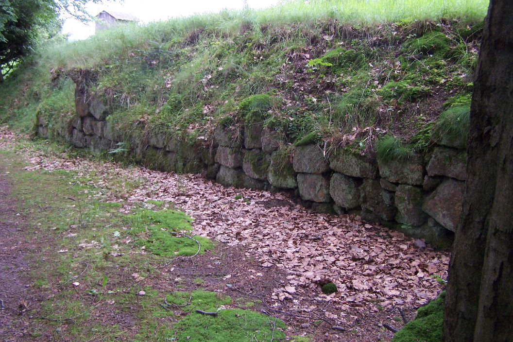 The ruine of a building in Schwarzwald castle.